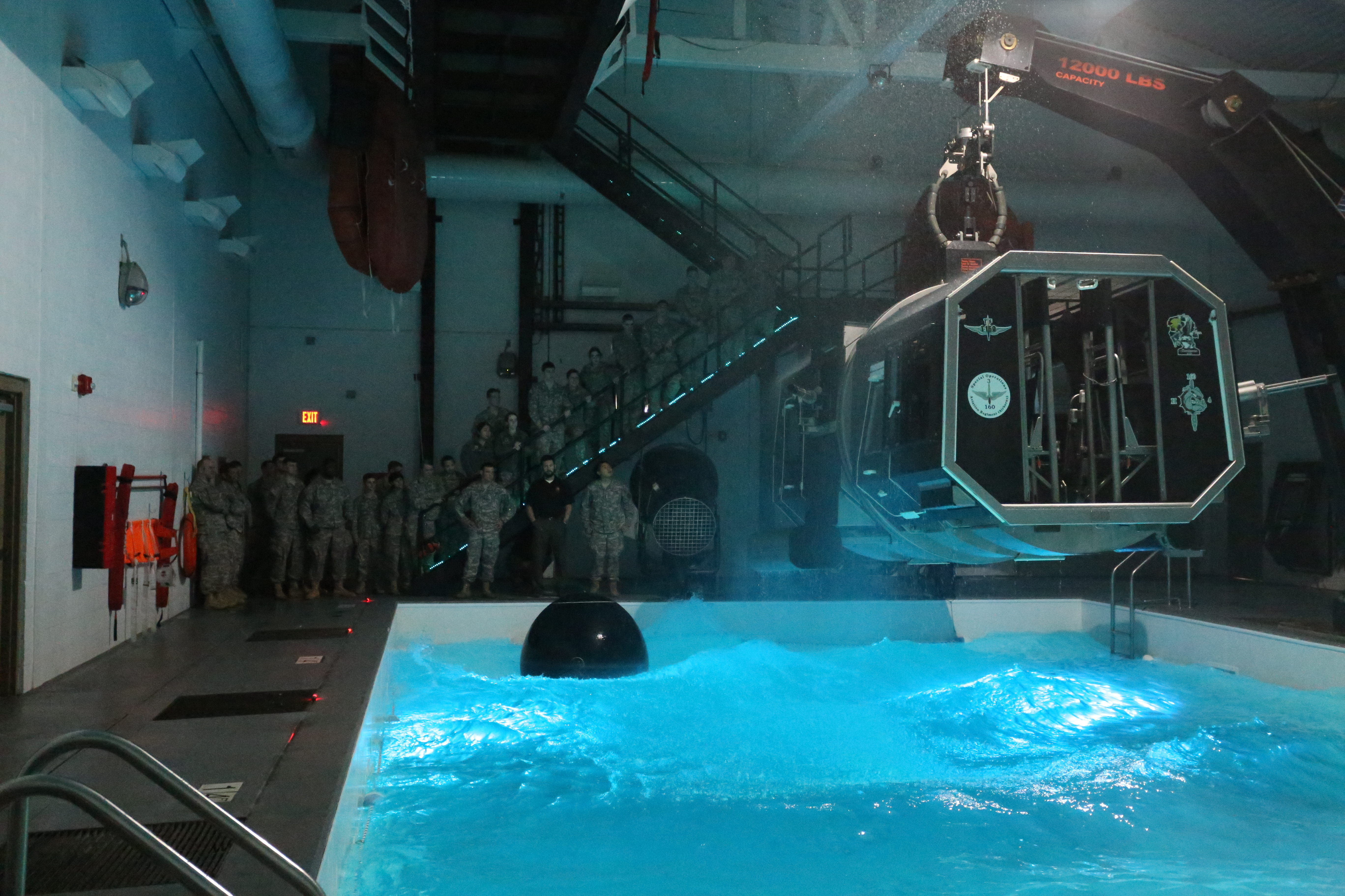 More than 30 cadets from Vanderbilt University’s Reserve Officer Training Corps watch a training simulation of a downed aircraft and rescue operation at the Special Operations Aviation Training Battalion’s Allison Aquatics Training Facility during a visit to the 160th Special Operations Aviation Regiment’s compound, Feb. 26. (U.S. Army photo by Staff Sgt. Gaelen Lowers, 160th Special Operations Aviation Regiment Public Affairs)